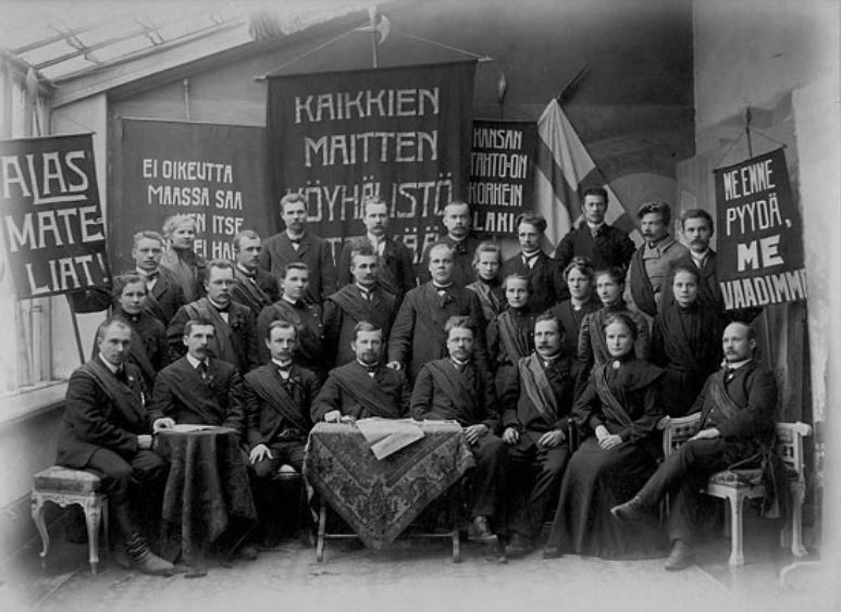 Committee of the 1905 General strike in Tampere, Finland.